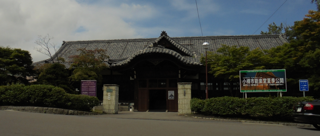 The Former Otaru District Auditorium